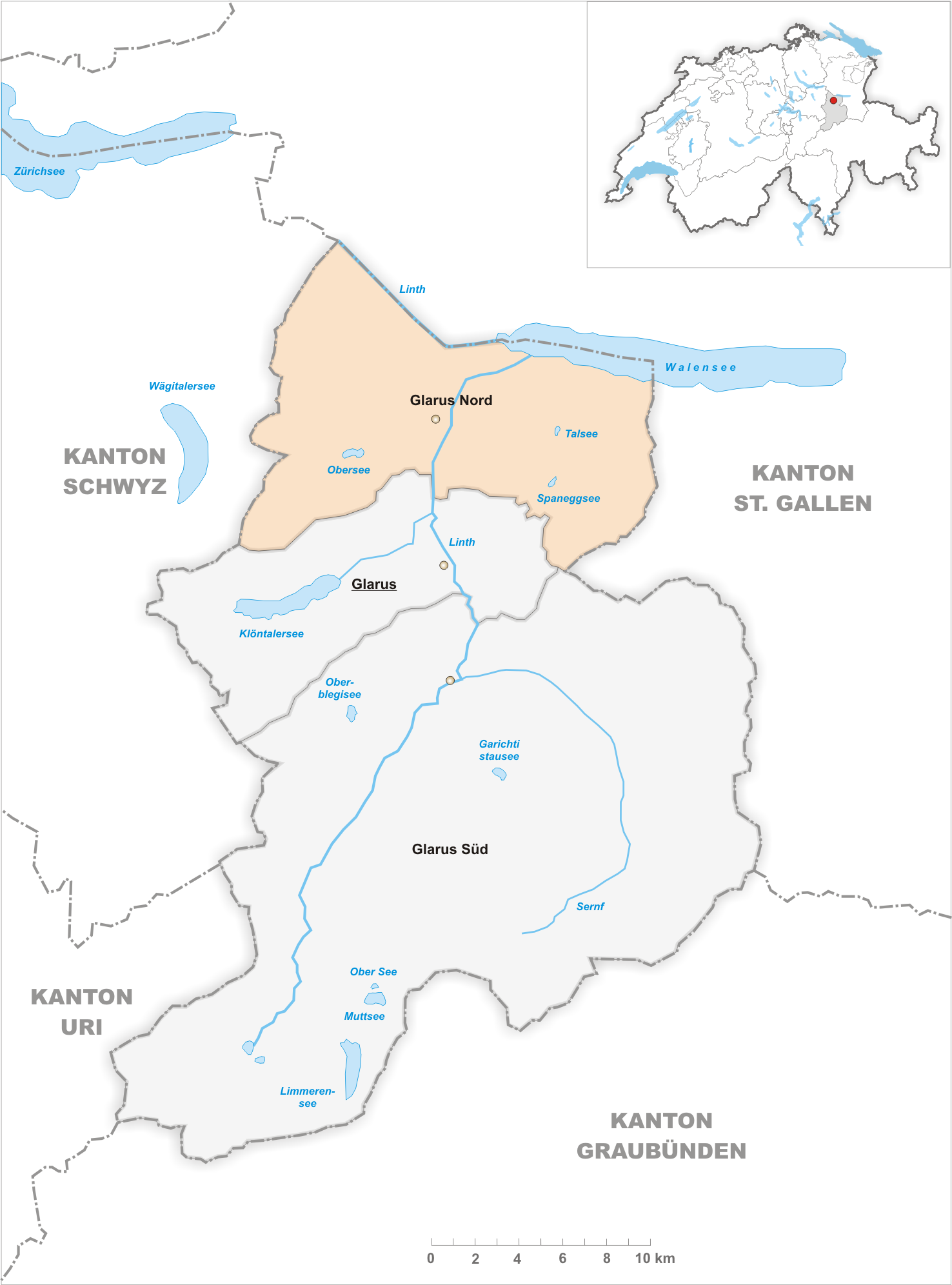 Municipality Glarus Nord